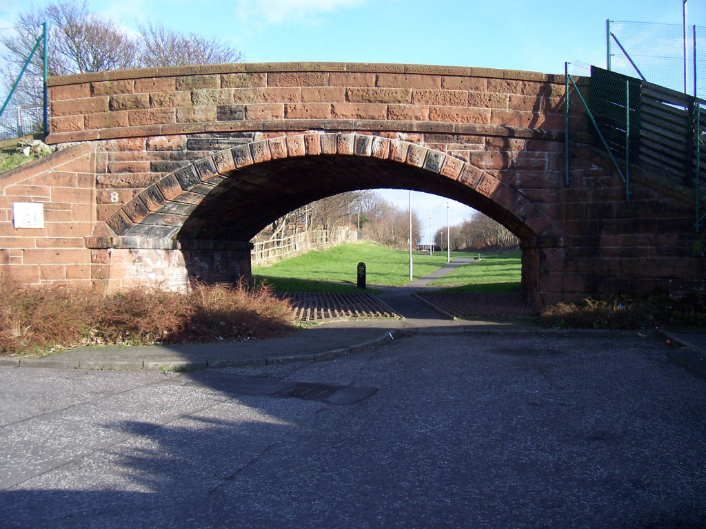 A view of the bridge that carries Jack's Road, Saltcoats over the former Lanarkshire and Ayrshire Railway, taken from where the platforms once stood at Saltcoats North railway station. Note the bridge is partially buried in the ground. Photo taken by Dreamer84, February 2006.